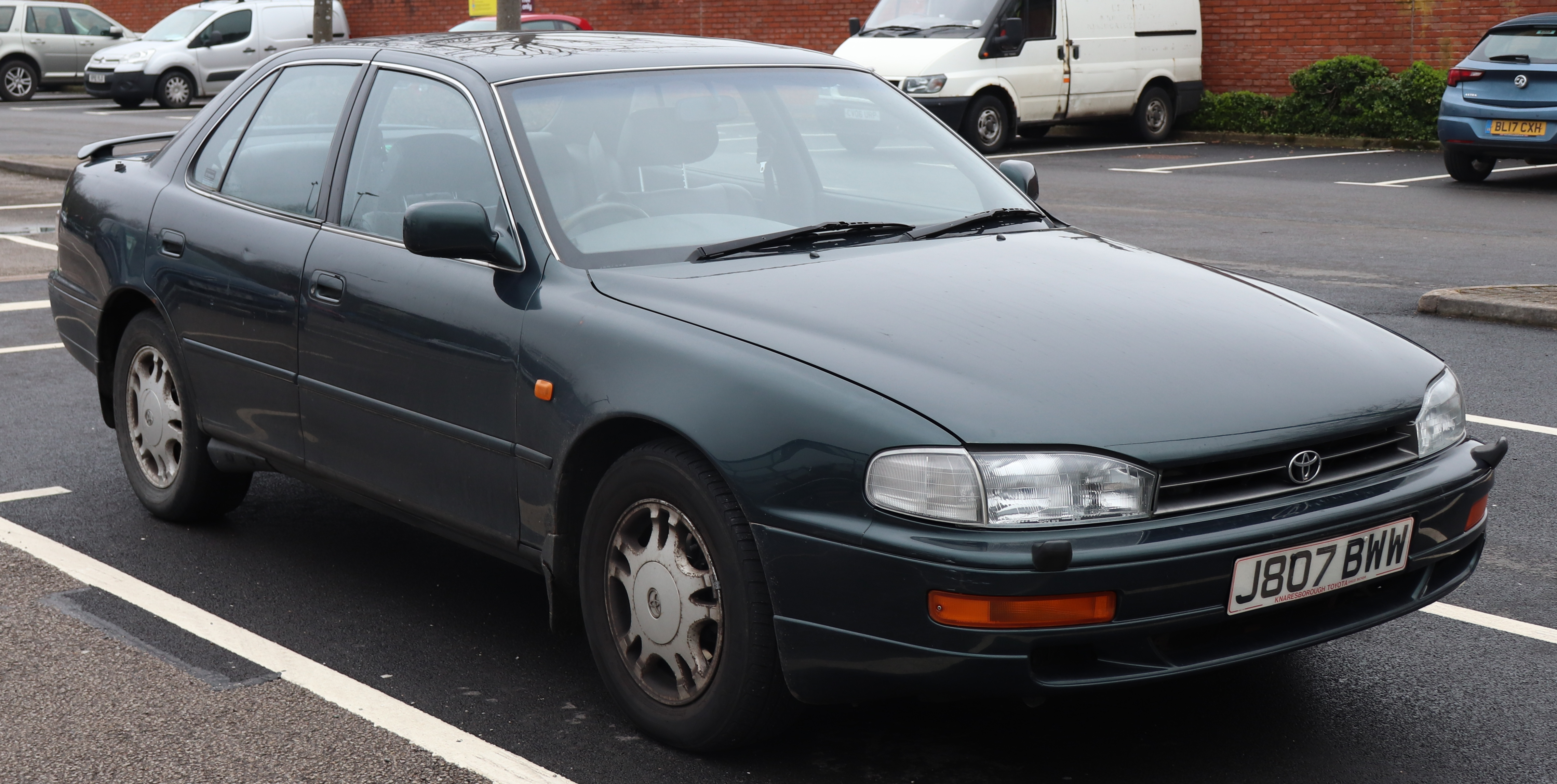 1992 Toyota Camry GX V6 Injection Automatic 3.0 Front Taken in Warwick